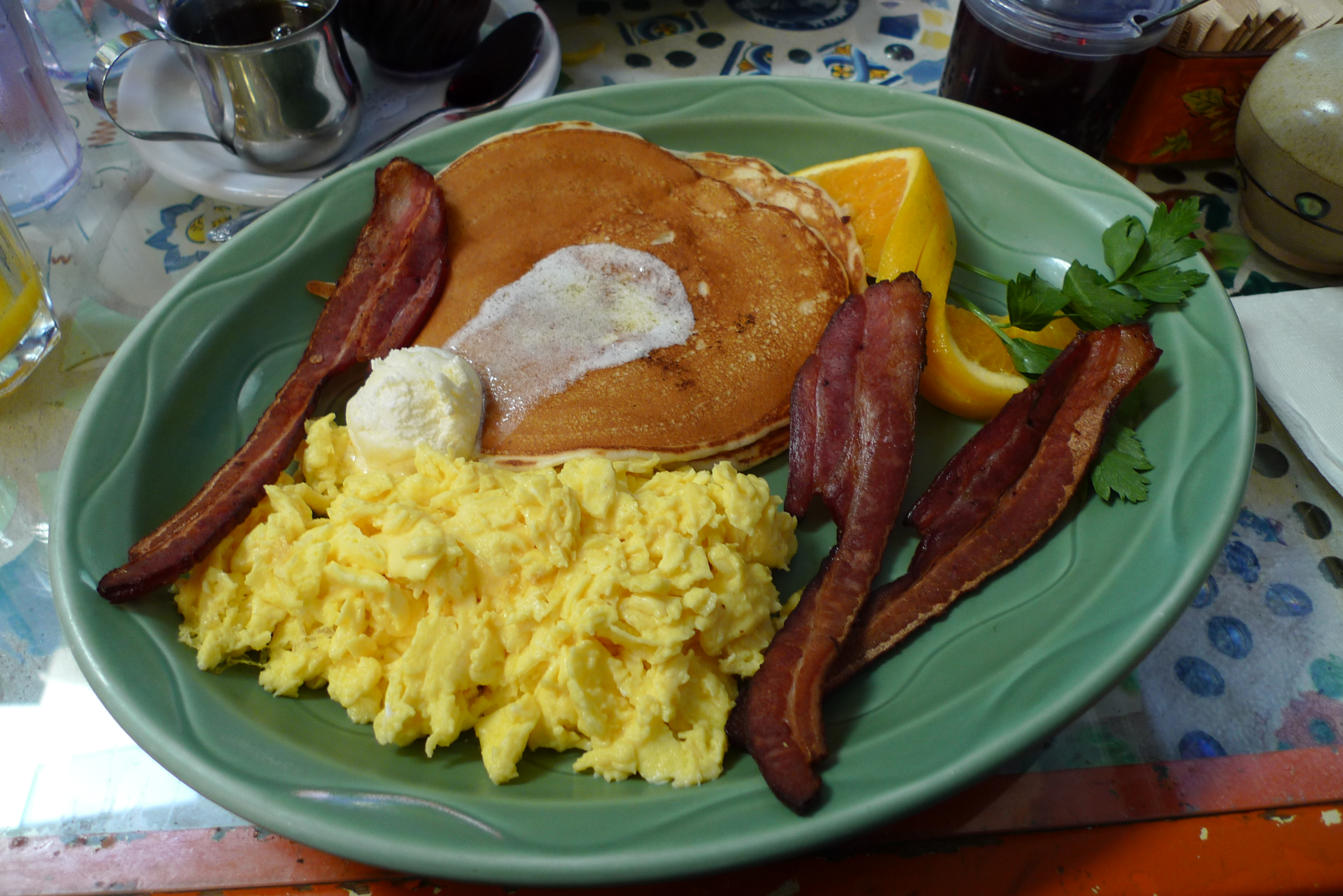 Pancakes with strips of bacon, and scrambled eggs, very tasty. At Morning Glory, Siskiyou Boulevard.